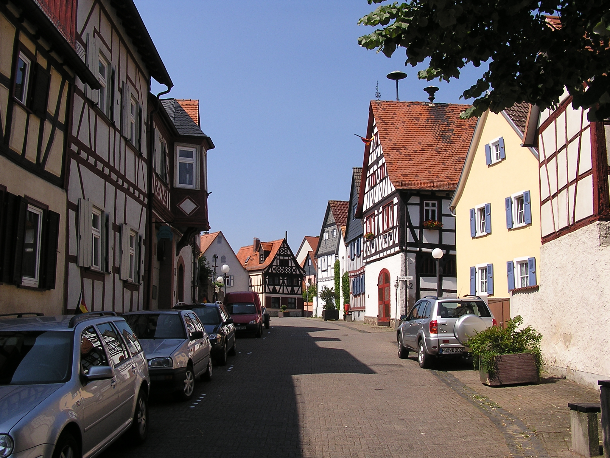 Historic city of Friedrichsdorf-Burgholzhausen